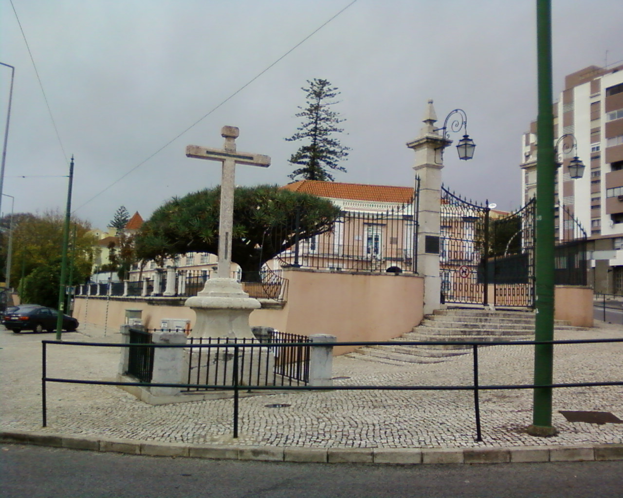 Cruzeiro de Algés / Cross at Algés (Portugal)